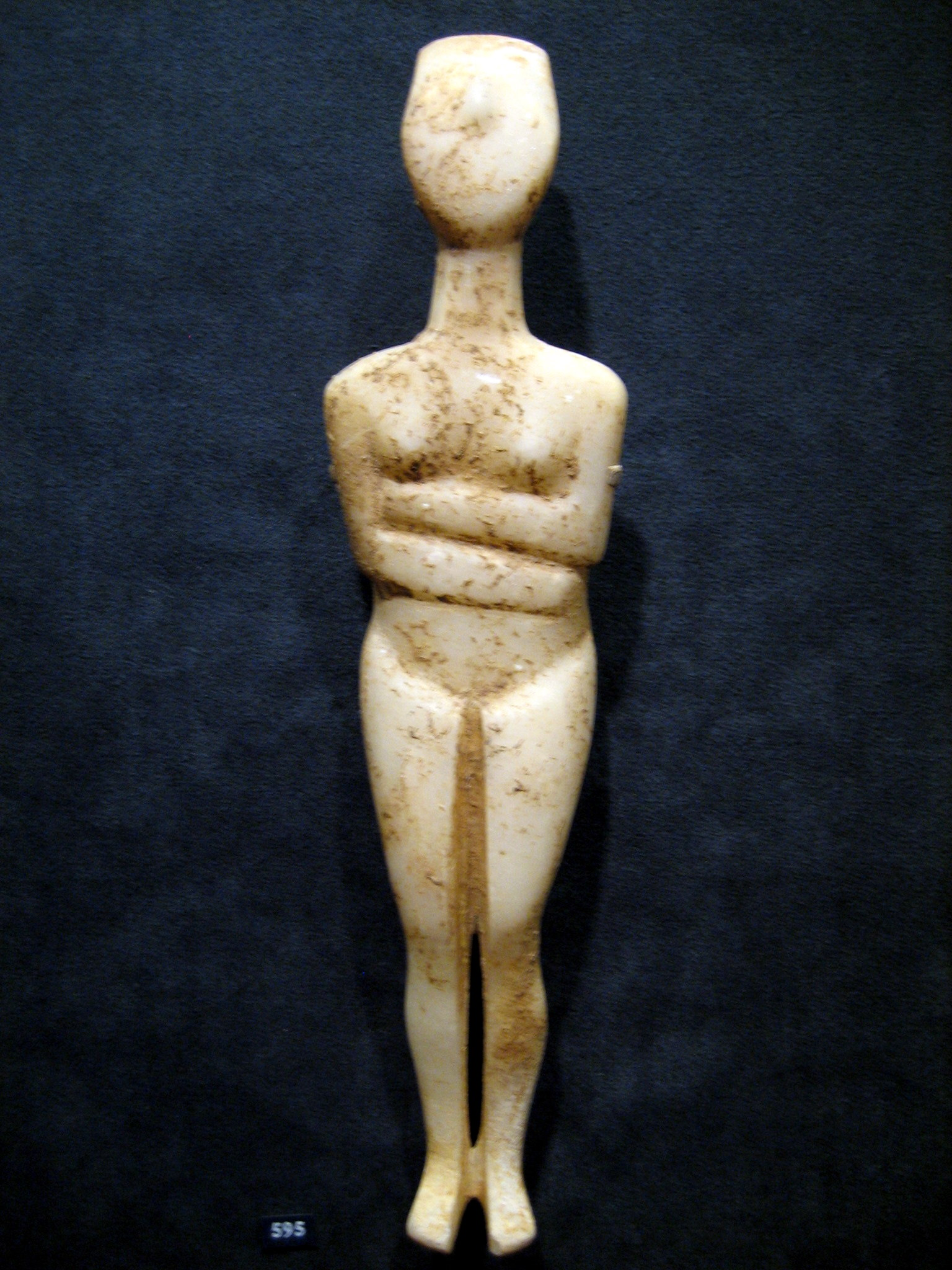 Cycladic female figurine, white marble, mottled tan with ochre encrustation, Height 25.2 cm, from Museum of Cycladic Art at Athens, Goulandris Collection, Inventary # 595 Canonical type, Kapsala variety